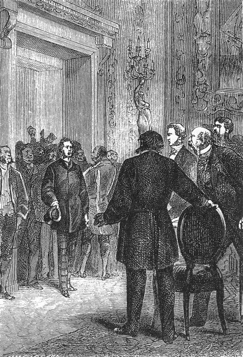 An ilustration from the novel "Around the World in Eighty Days" by Jules Verne painted by Alphonse de Neuville and/or Léon Benett.